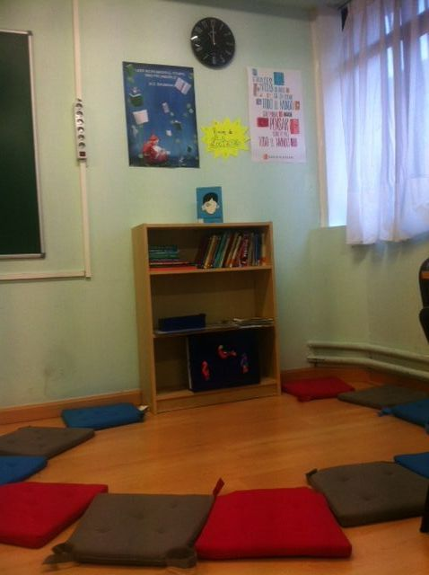 Reading corner at a Middle School classroom. In the picture we may see a small bookcase with some books, one of them featured, some motivating posters and several cushions on the floor for the students to feel more confortable.